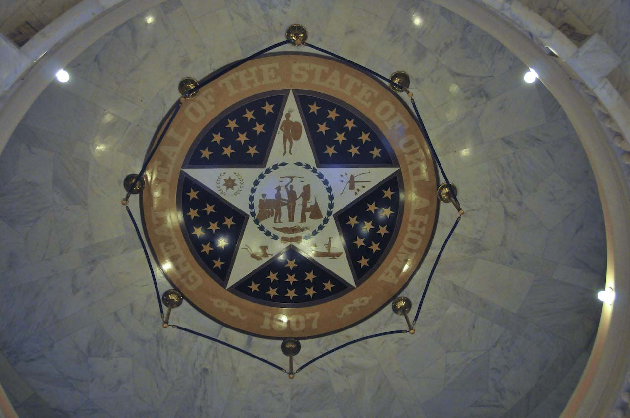 State Capitol Seal on the Ground